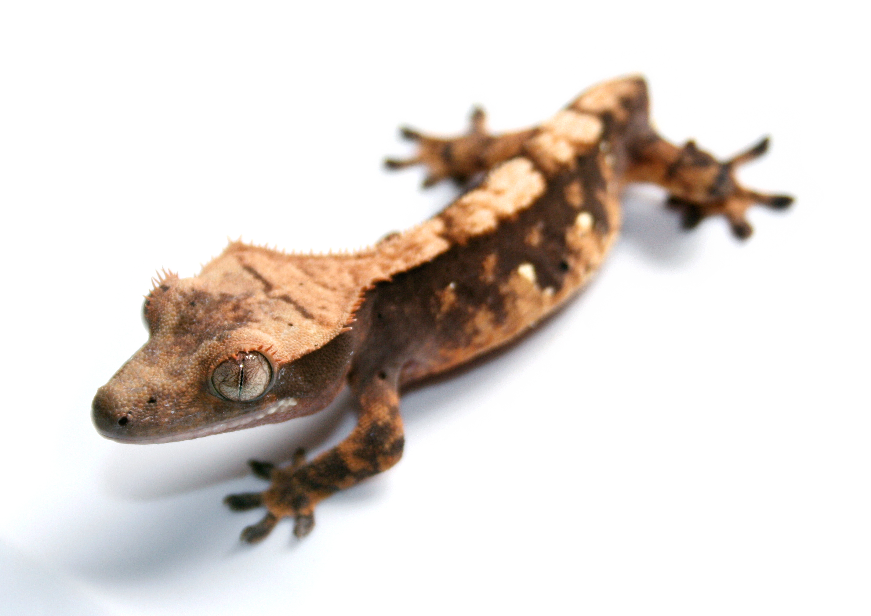 Correlophus Ciliatus (Crested Gecko) juvenile who's dropped its tail. Crested geckos do not regrow their tails once lost.